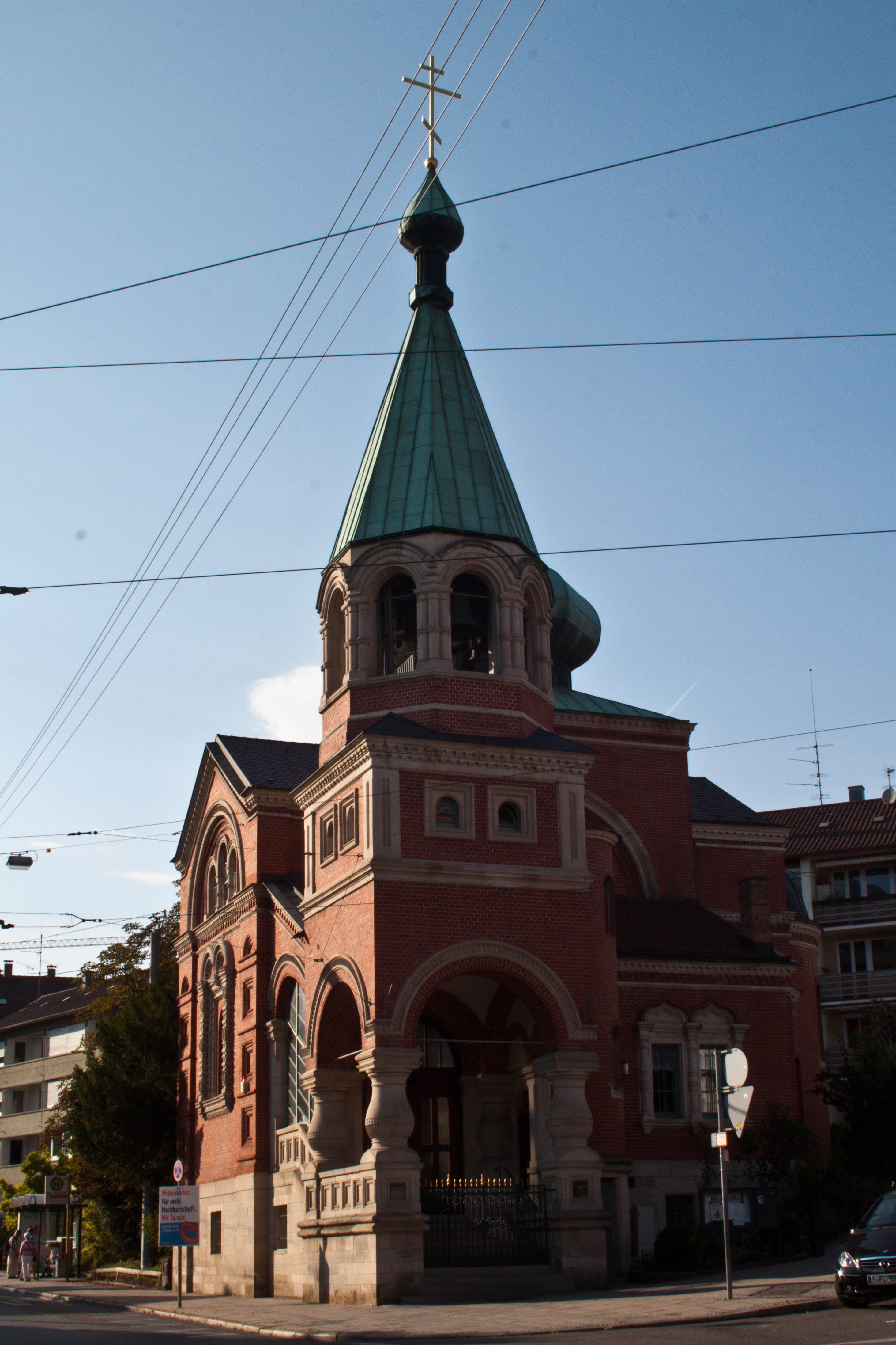 Russische Kirche Stuttgart Germany. Russian Church